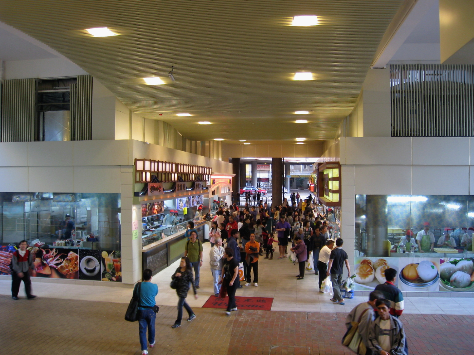 Cheung Fat Estate Shopping Centre 長發商場